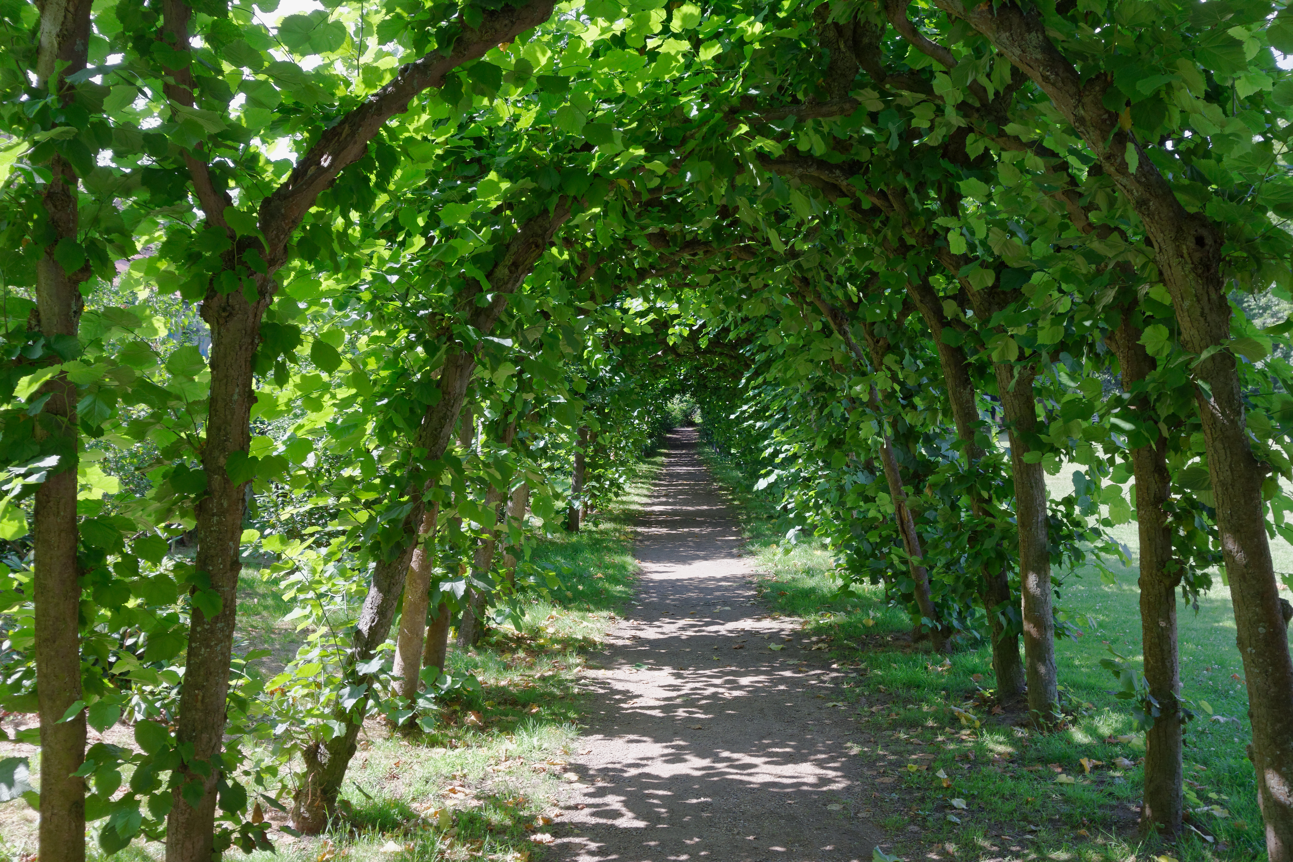 Hamburg-Fuhlsbüttel, part of the park area "Wacholderpark"